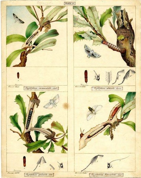 Scott Lepidoptera Australia Plate 4 original watercolour c 1840-1860 Cryptophasa immaculata Scott, Cryptophasa albacosta Lewin, Cryptophasa spilonota Scott and Cryptophasa bipunctata Scott Family:Xyloryctidae